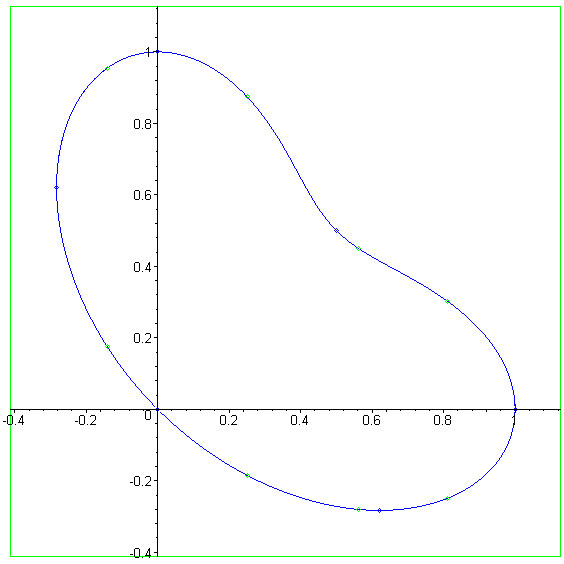 r = cos 3 ⁡ θ + sin 3 ⁡ θ {\displaystyle r=\cos ^{3}\theta +\sin ^{3}\theta } This is a PNG of the crooked egg curve, and was created by me, user:Gene Ward Smith. I am releasing it to the public domain.